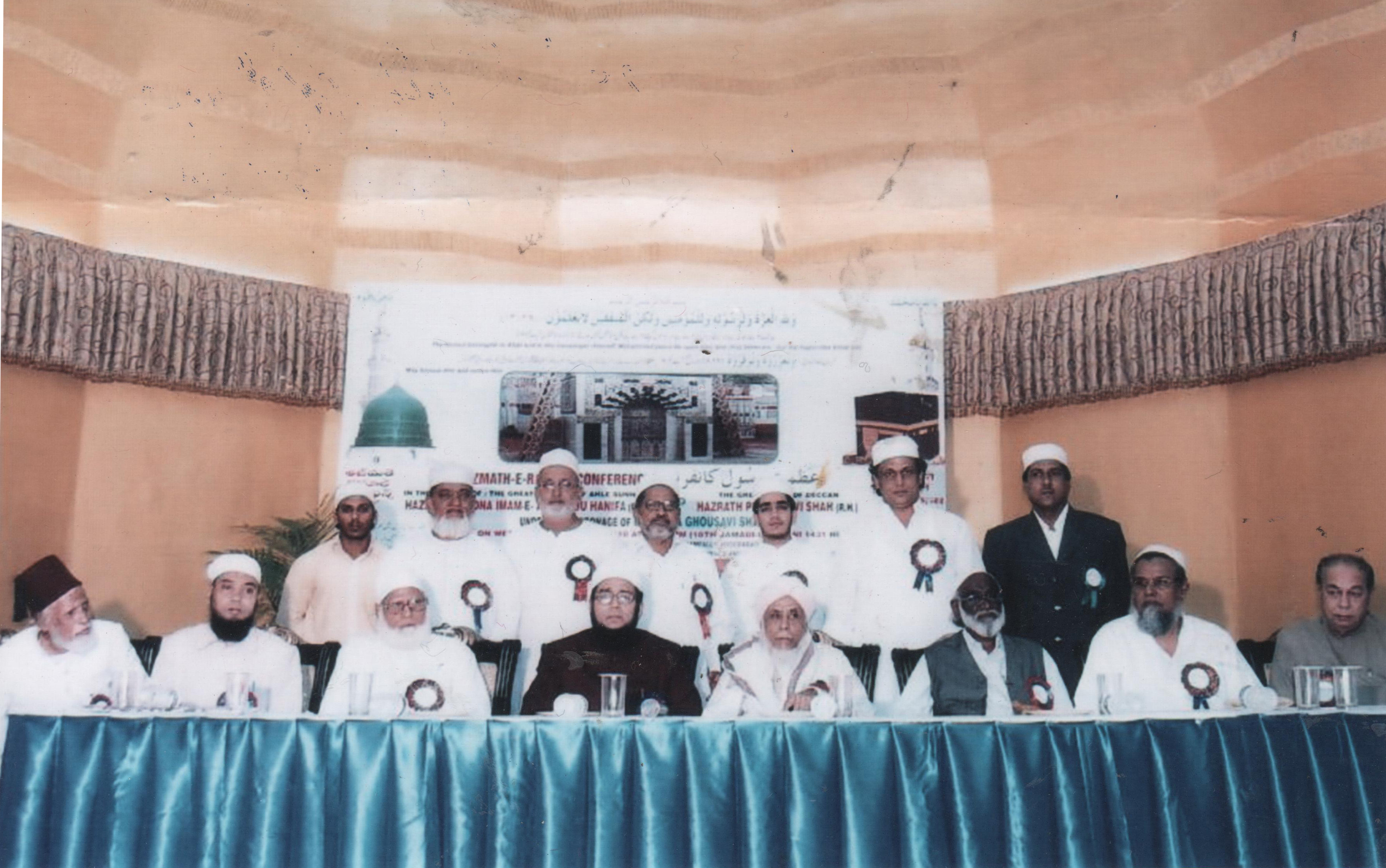 Second Azmath-E-Rasool Conference organized by Moulana Ghousavi Shah(President: All India Muslim Conference)